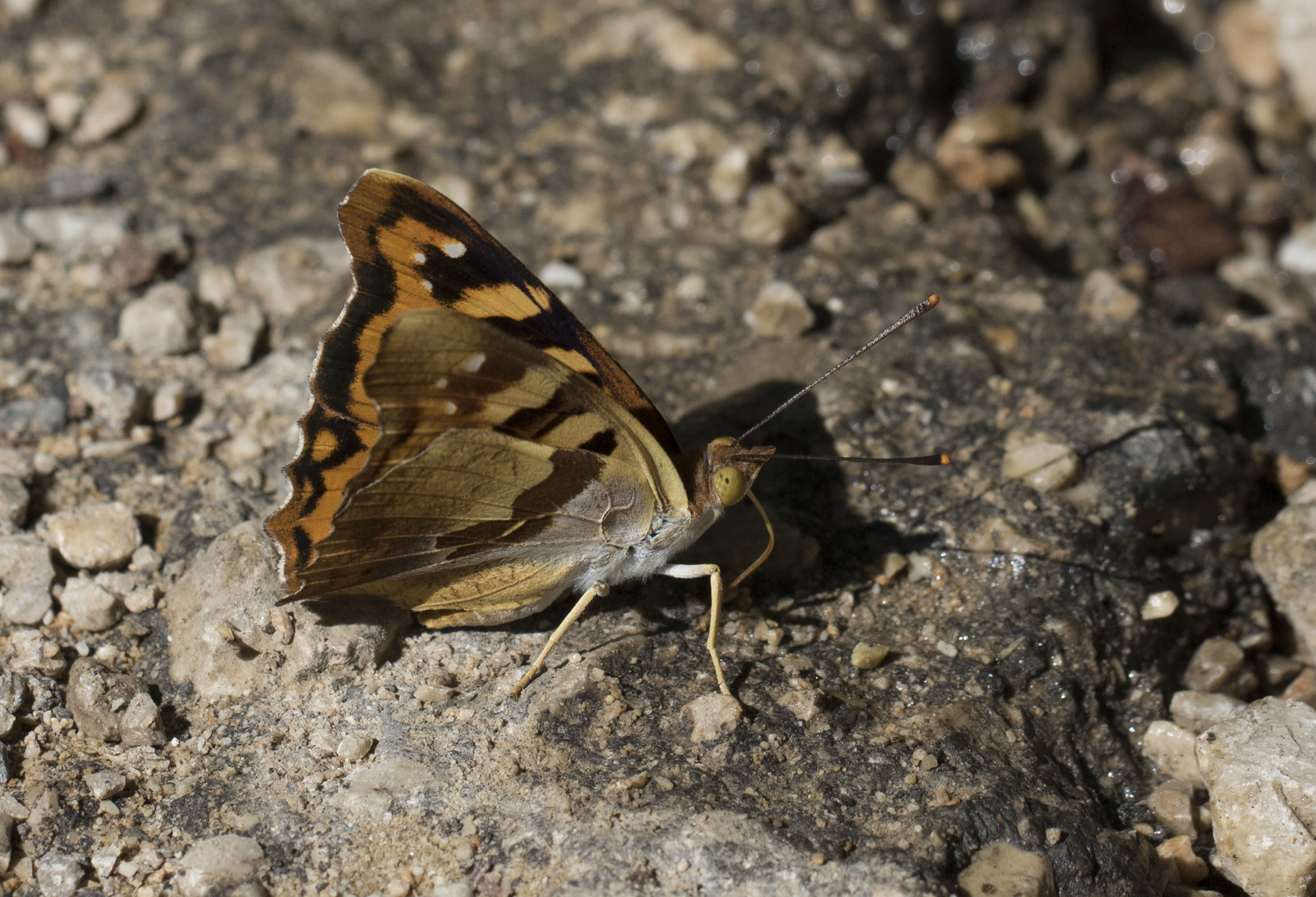 Ionian Emperor (Thaleropis ionia). Obruk Waterfall NP, Saimbeyli - Adana, Turkey.